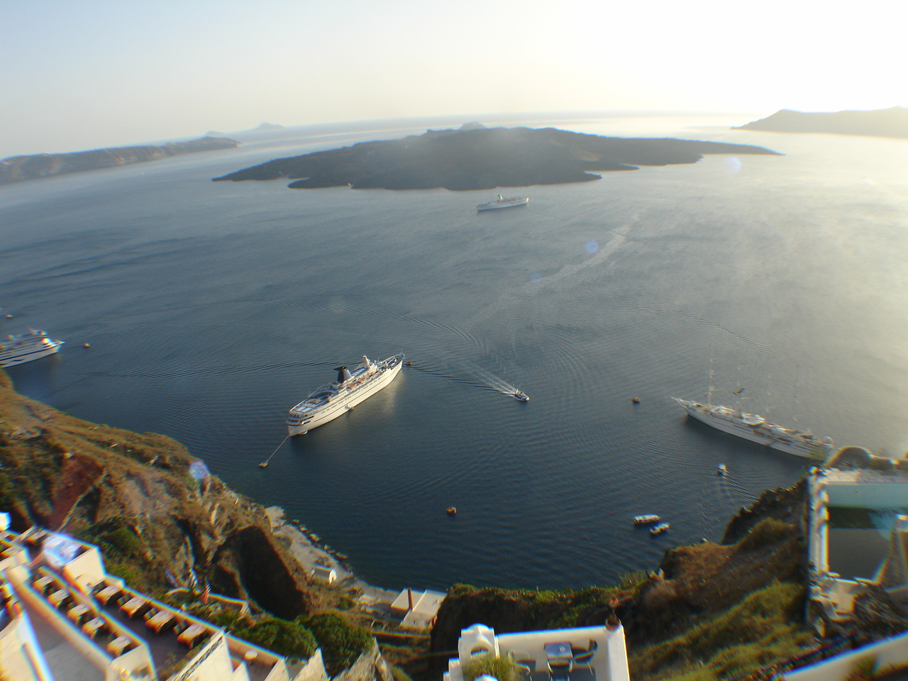 A view on caldera in Santorini, Greece